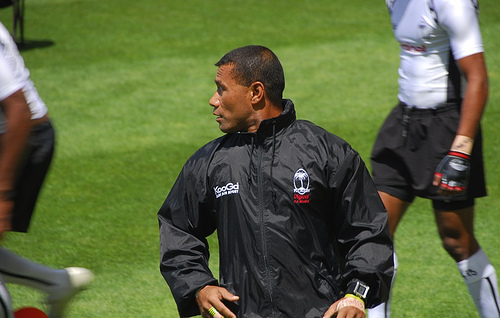 Photo of Waisale Serevi at the 2007 Wellington Sevens (rugby union).